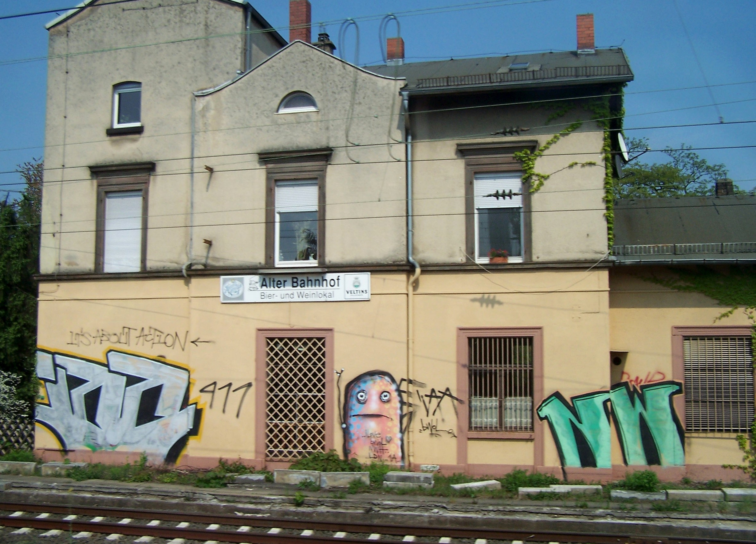 Old Frankfurt am Main-Niederrad Station main building (1882), abandoned 1977